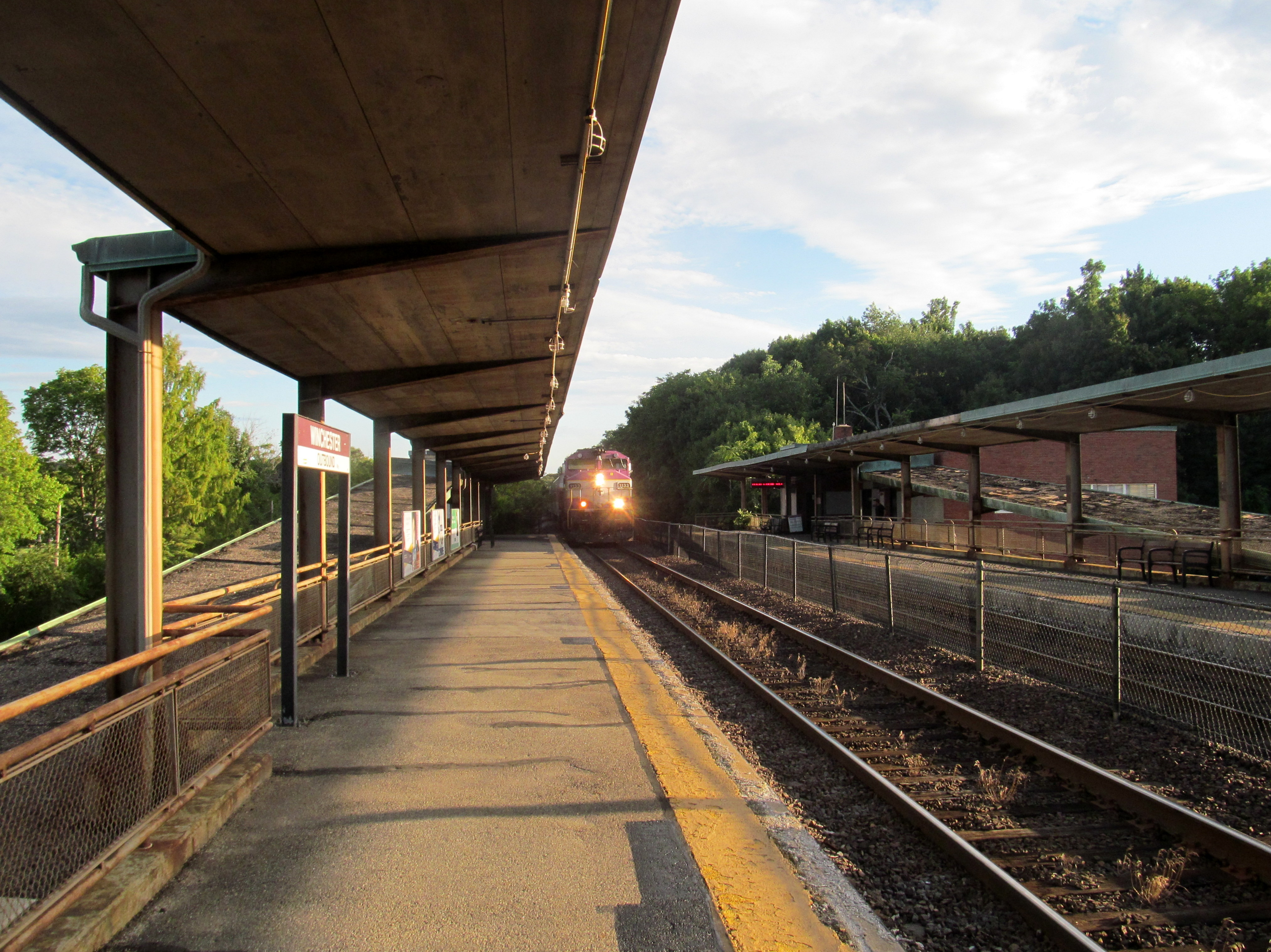 An outbound train arriving at Winchester Center station in August 2015